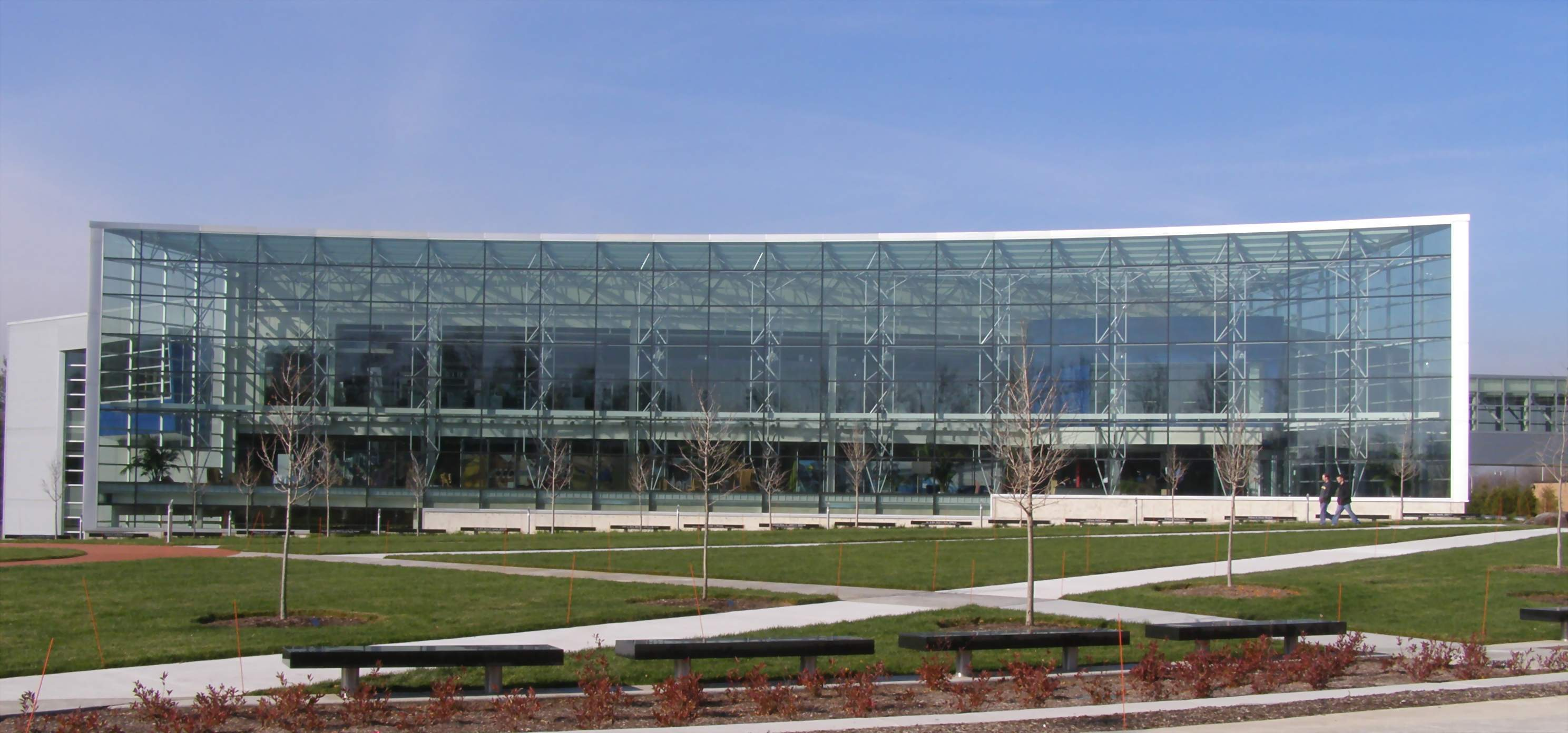 The photograph shows the glass wall of the A.Alfred Taubman Student Services Center at Lawrence Technological University